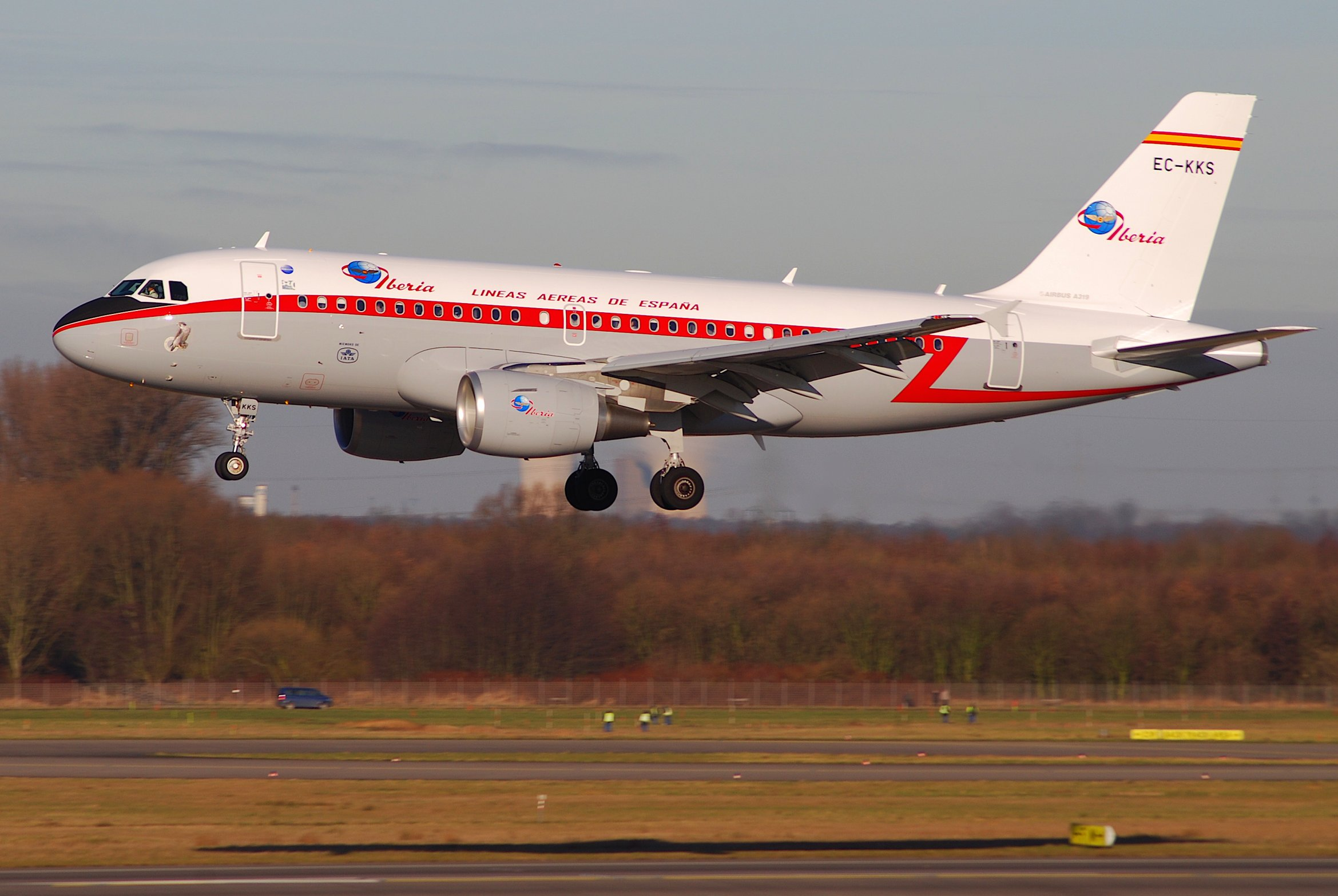 IB's RetroJet on finals to Düsseldorf... First flight: November 18, 2007 and delivered to IB one day later...(c/n 3320)